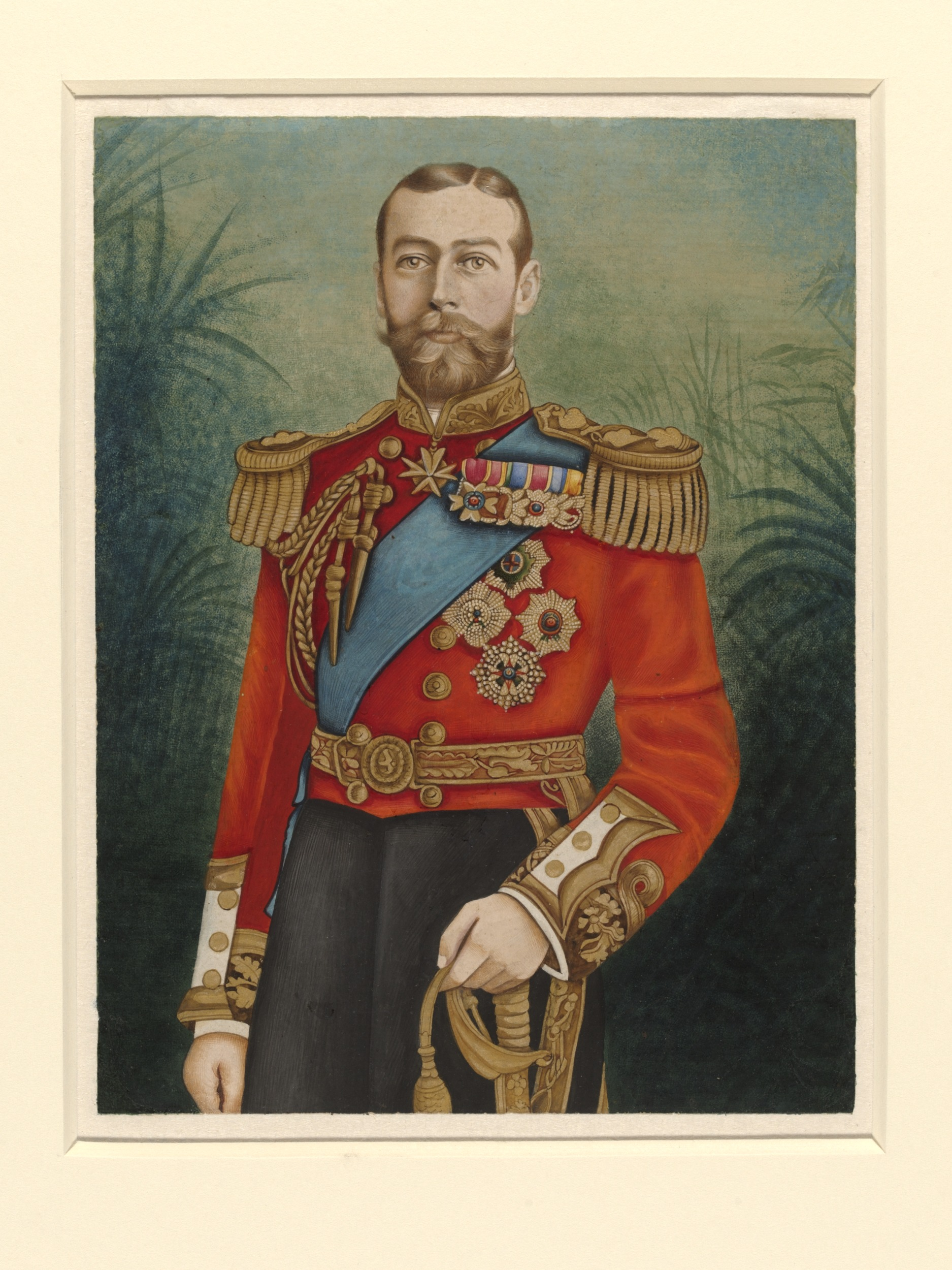 This Company painting is a portrait of King George V, who succeeded his father, Edward VII, in 1910. The painting is probably based on an illustration in a magazine, perhaps one issued to commemorate his coronation on 22 June, 1911 or, more likely, the Delhi durbar, which took place in the following December and was attended by King George and Queen Mary as part of their state visit to India, the first by a reigning British monarch. It was on this occasion that the couple were formally proclaimed Emperor and Empress of India and the decision was announced to move the capital from Calcutta to Delhi. 'Company paintings' were produced by Indian artists for Europeans living and working in the Indian subcontinent, especially British employees of the East India Company. They represent a fusion of traditional Indian artistic styles with conventions and technical features borrowed from western art. Some Company paintings were specially commissioned, while others were virtually mass-produced and could be purchased in bazaars.